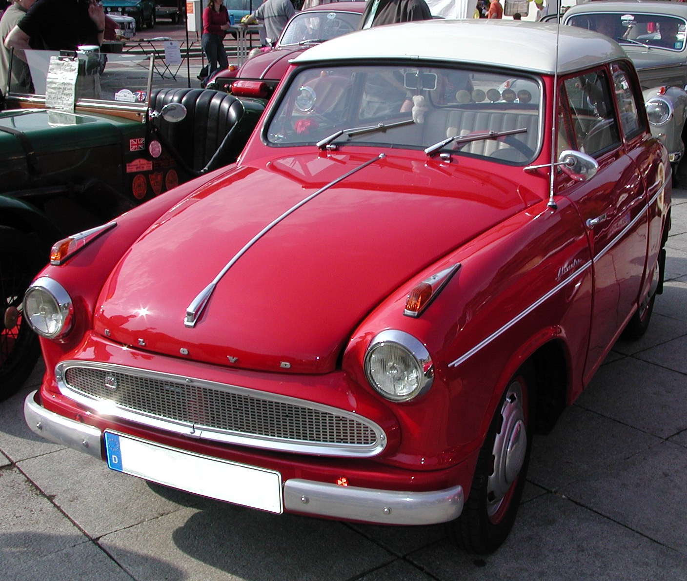 Borgward Modell „Lloyd Alexander TS“ Motiv: „Lloyd Alexander TS“ von Borgward Foto: , 2005